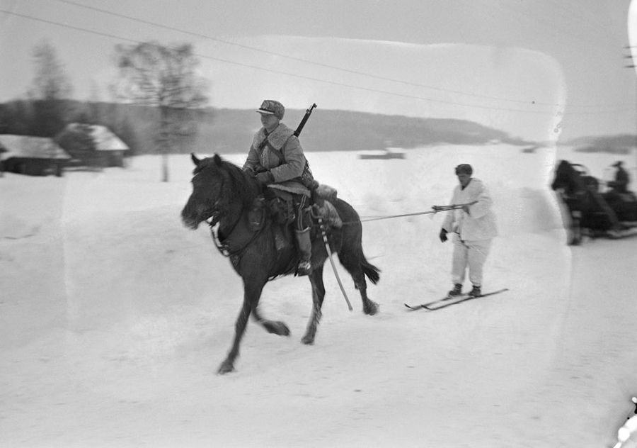 Battle messanger returnes from the front.